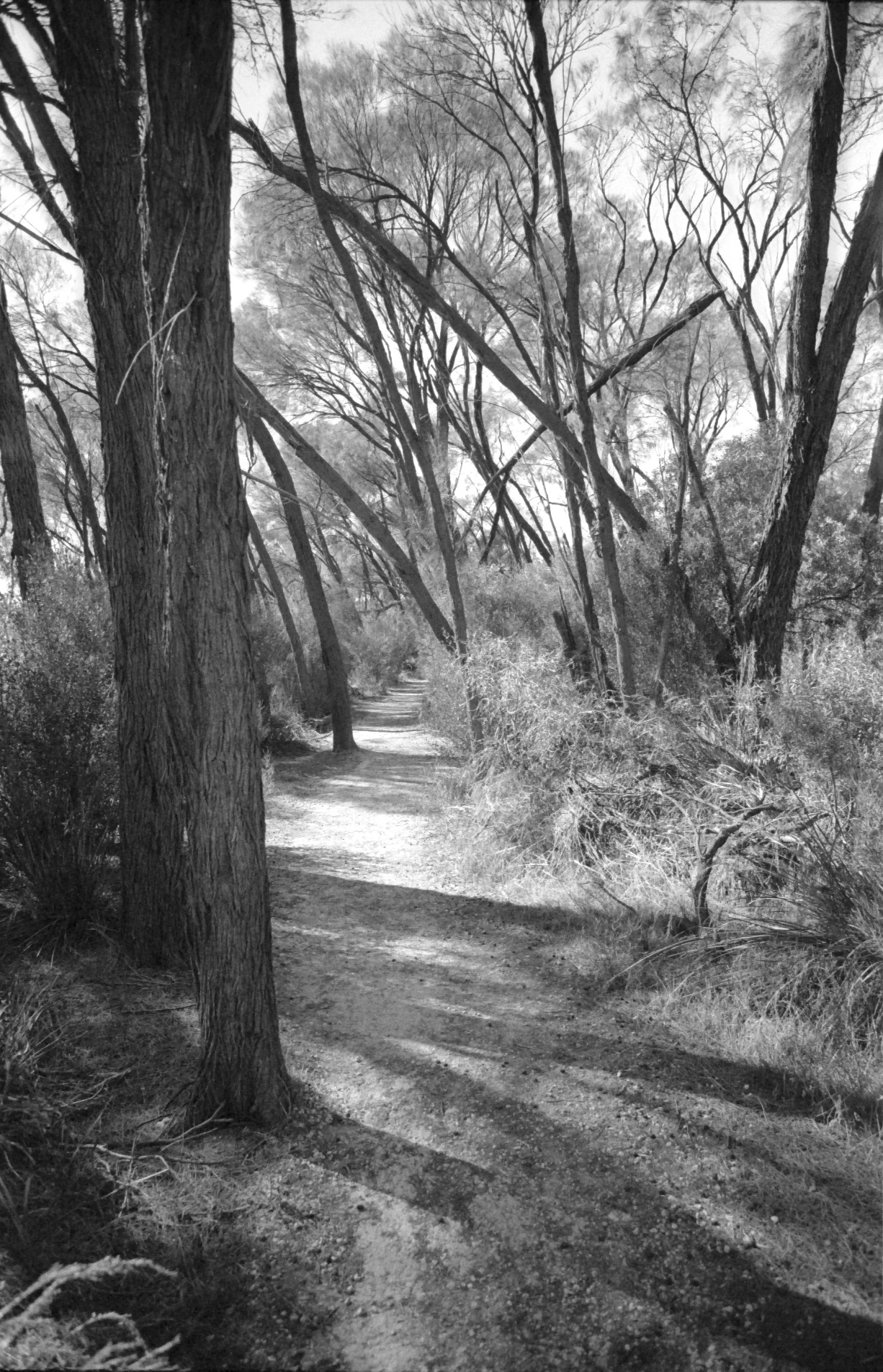 This is a monochrome photograph of mallee vegetation in the vicinity of Hyden, Western Australia.